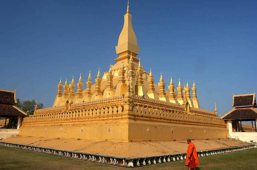 Pha That Luang, the great stupa at the capital city of Vientiane, Laos, serves as a symbol of Lao national identity.